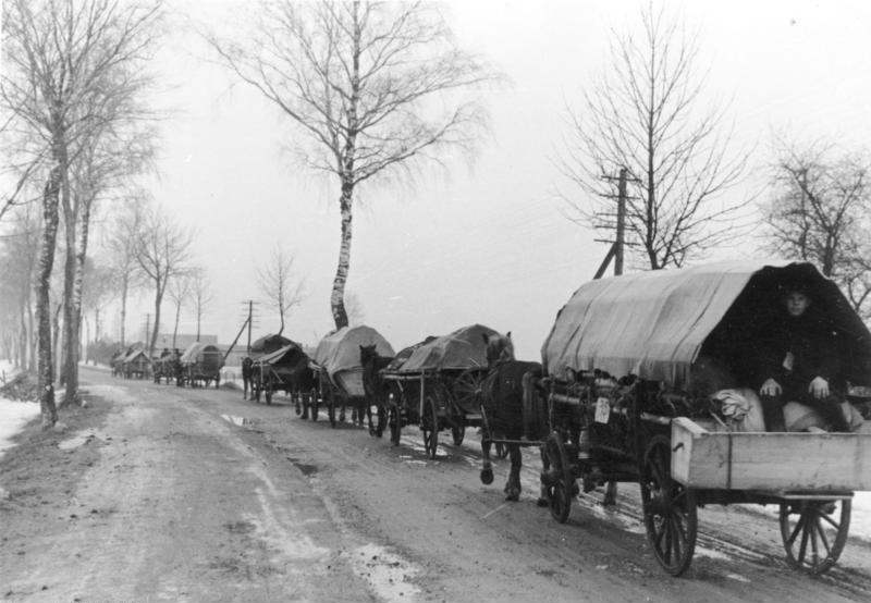 East Prussia, resettlers from Lithuania. Resettlement of Lithuanian Germans: Trek to the detention centre. Place Eydtkau, 1941.